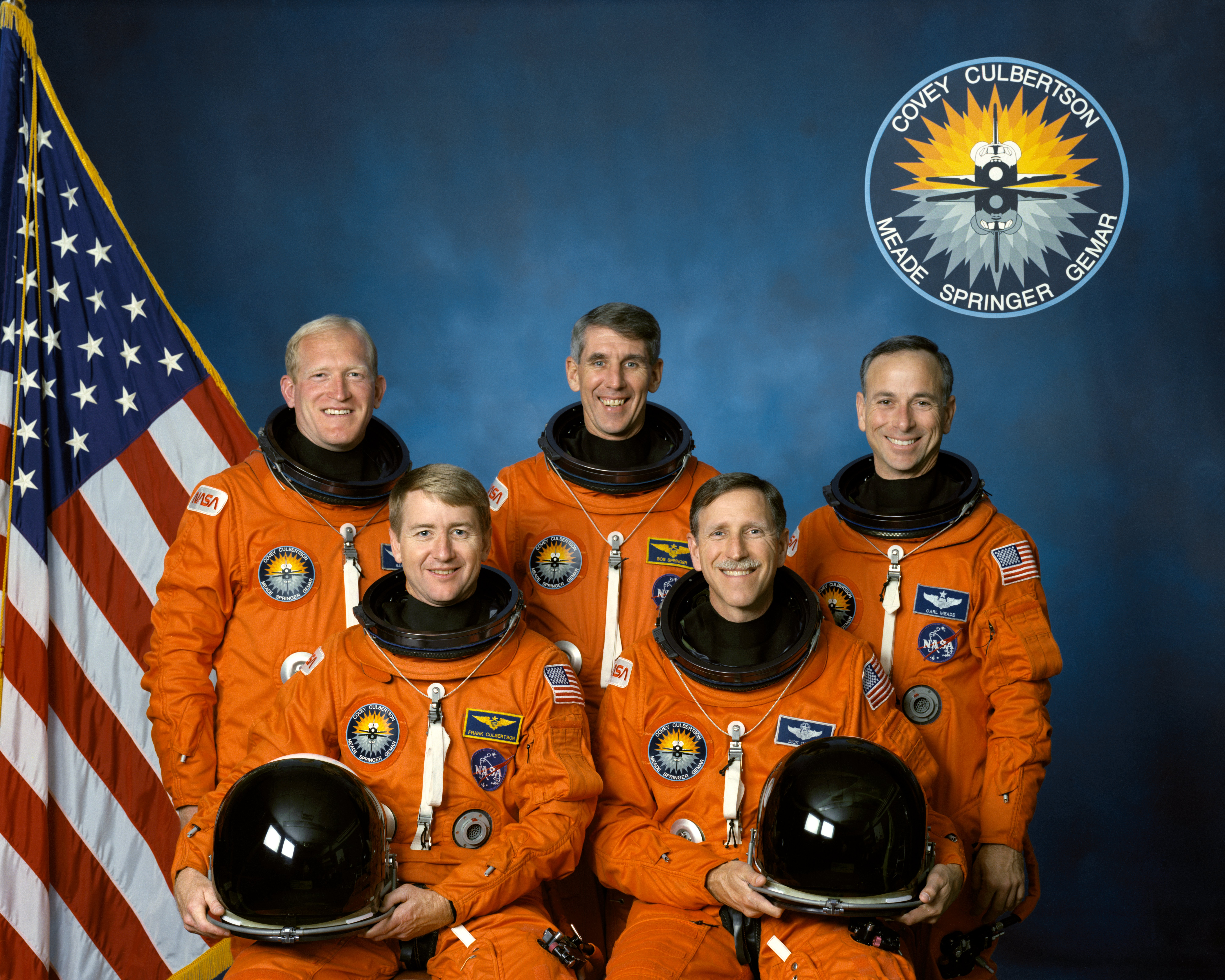 The official STS-38 crew portrait includes the following 5 astronauts (front left to right): Frank L. Culbertson, pilot; and Richard O. Covey, commander. Standing (left to right) are mission specialists (MS) Charles D. (Sam) Gemar, (MS-3), Robert C. Springer, (MS-1), and Carl J. Meade, (MS-2). The seventh mission dedicated to the Department of Defense (DOD), the STS-38 crew launched aboard the Space Shuttle Atlantis on November 15, 1990 at 6:48:15 pm (EST).